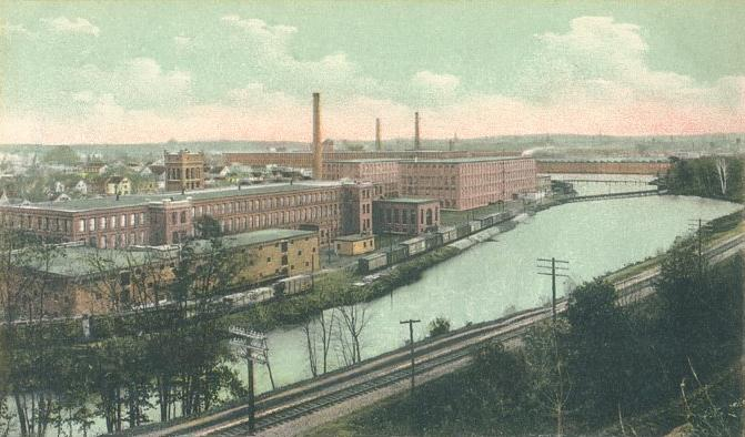 The Arlington Cotton Mills, Lawrence, MA; from a 1907 postcard.